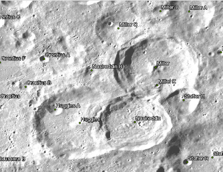 Image of Huggins, Nasireddin, and Miller crater from the Lunar Reconaissance Orbiter. Other information Images were obtained as a screenshot snip from the Orbital Data Explorer at the NASA Planetary Data System Geosciences Node, , curated at